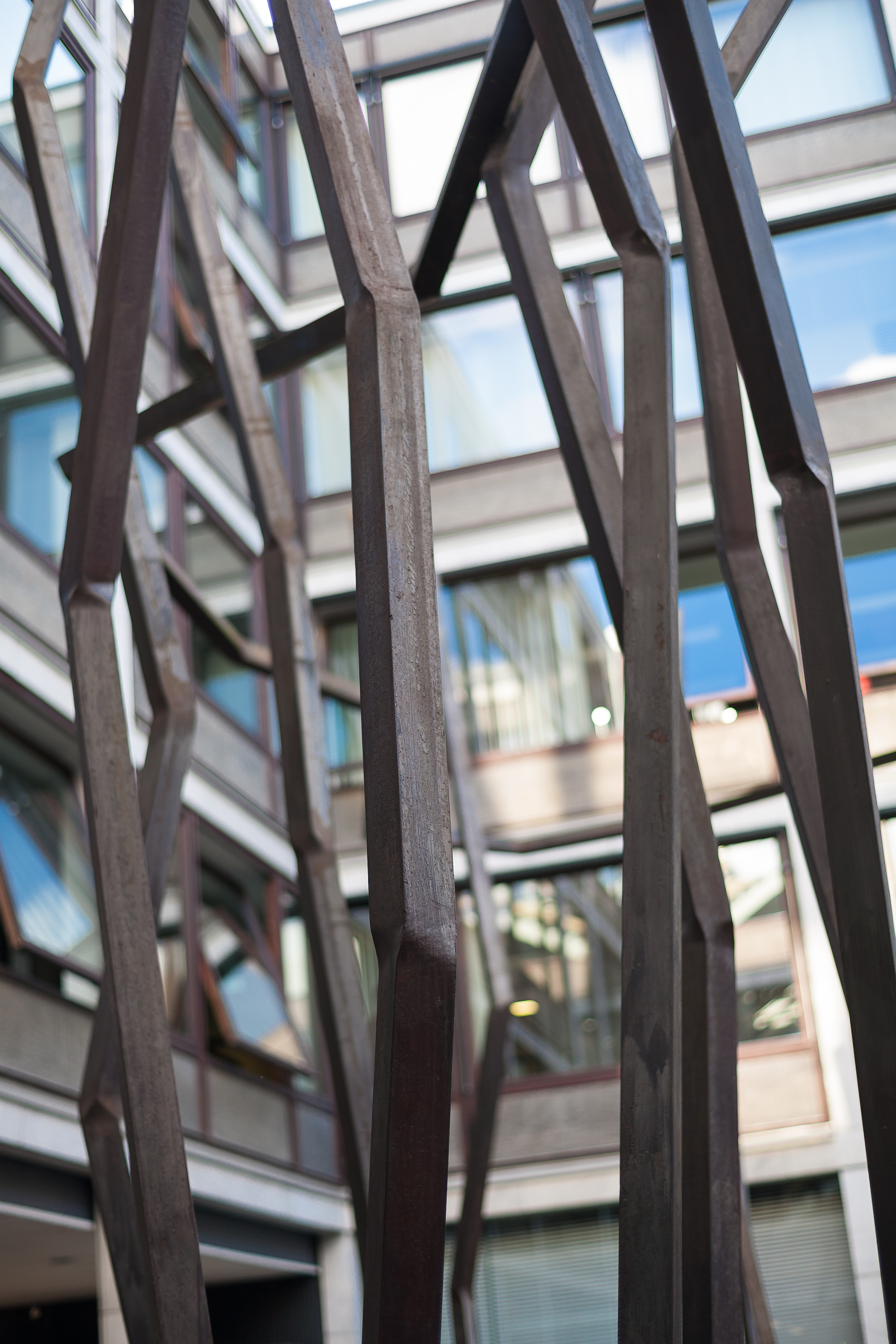 Sculpture "In Vent" by Robert Schad (1926 - 1990) installed in the inner yard of the Sparkasse office building located at Aegidientorplatz square, Hanover. Germany.